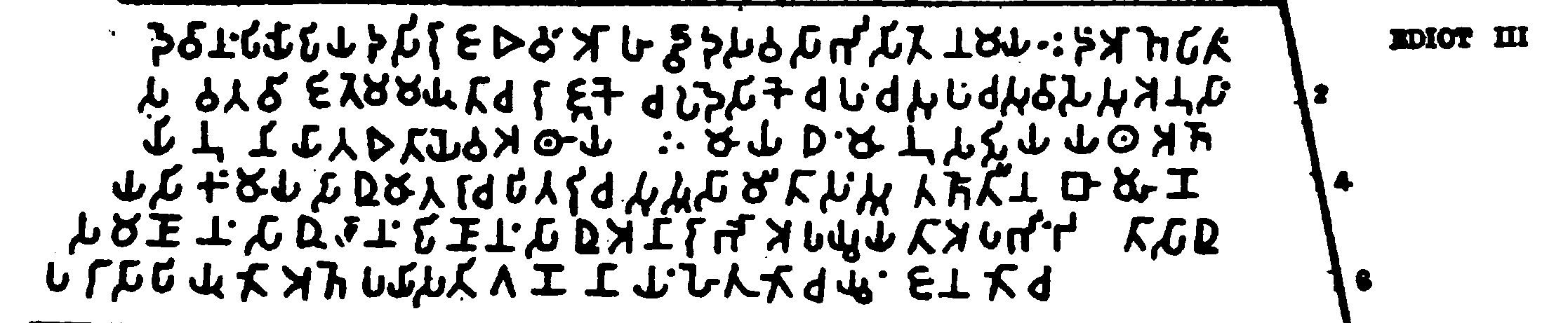 Girnar Major Rock Edict No3